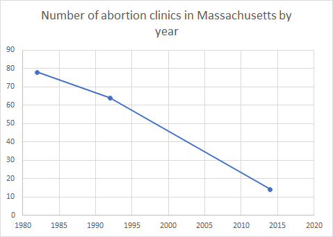 Number of abortion clinics in Massachusetts by year. Data is from articles linked at